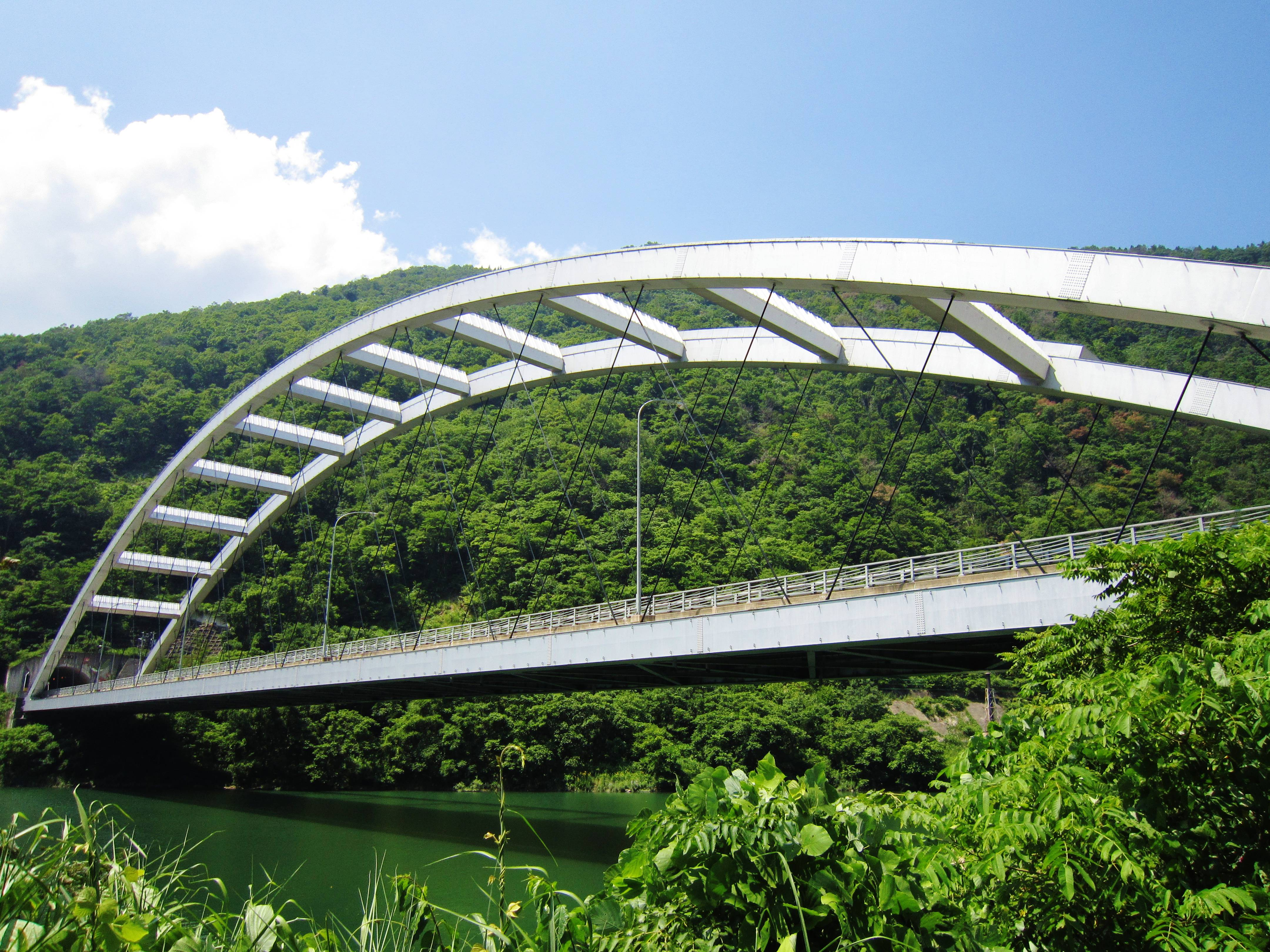 Miyagawa-shin-ohashi Bridge.